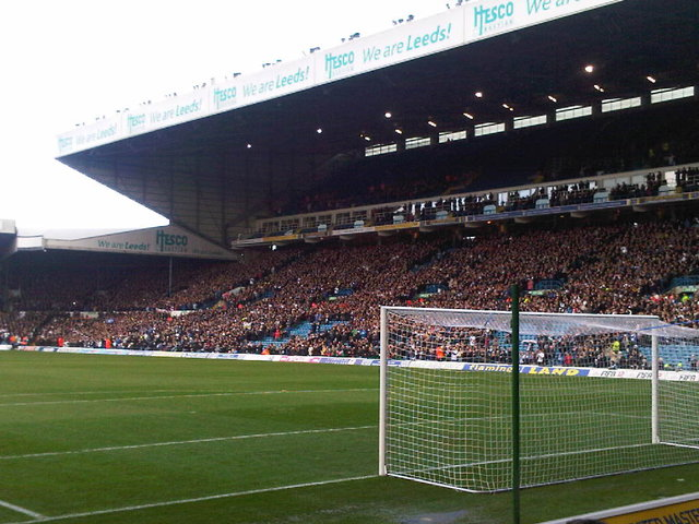 Photo taken from the South Stand showing the new East Stand Upper Corporate Boxes v Millwall 03.12.2011